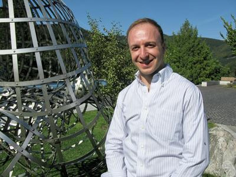 Alex Kontorovich, Oberwolfach 2011